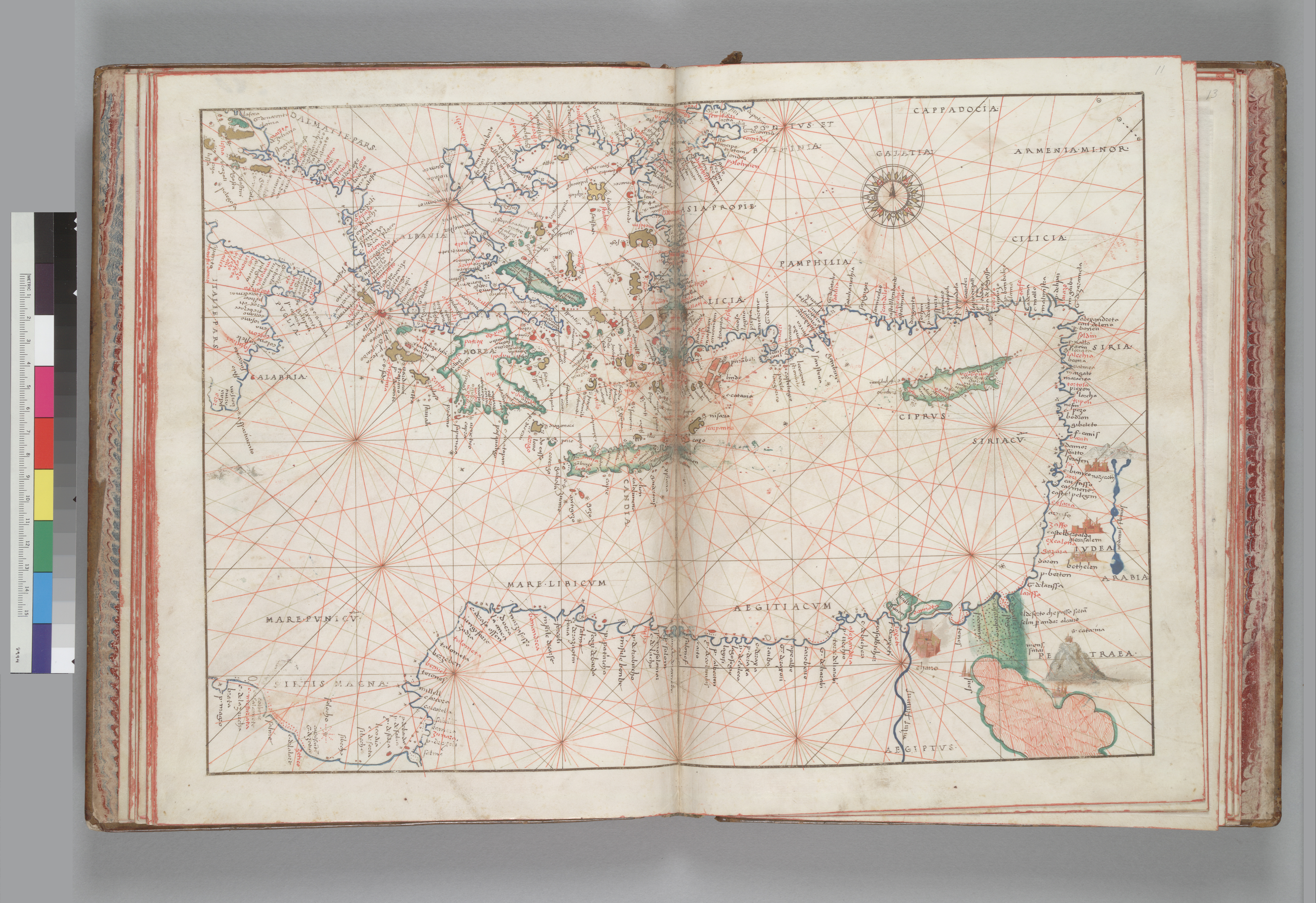 Eastern Mediterranean and Aegean Sea. Battista Agnese, PORTOLAN ATLAS (Italy ca. 1550) Call Number: HM 10 Folio: ff. 10v-11 Description: Eastern Mediterranean and Aegean Sea.